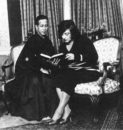 French novelist Gyp (Sibylle Gabrielle Riquetti de Mirabeau, Comtesse de Martel, 1849-1932) showing a Japanese artist how to play Cyrano de Bergerac.